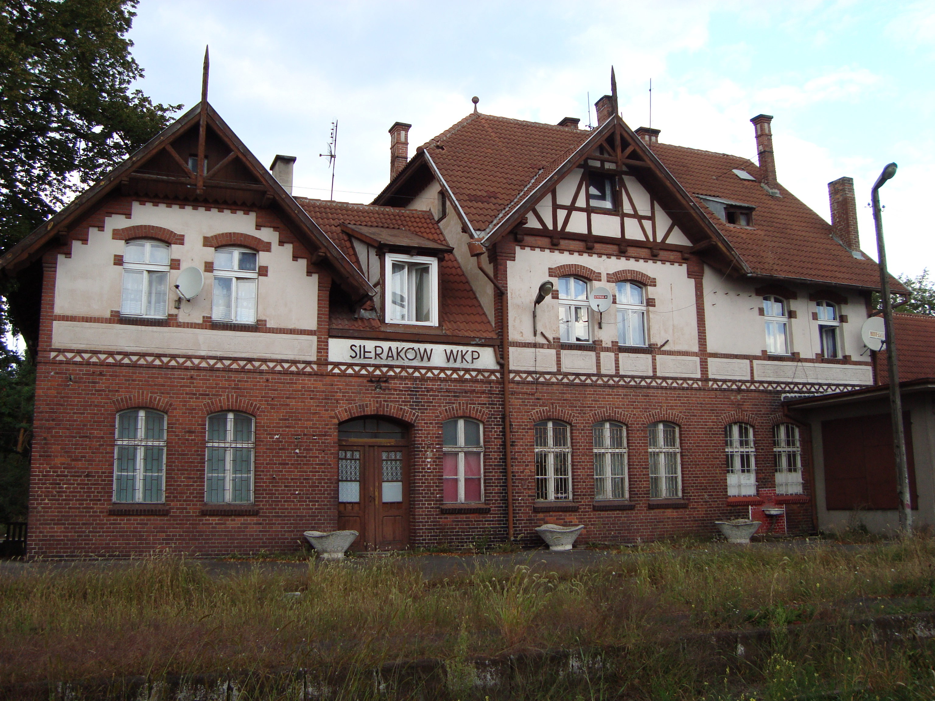 Closed train station in Sieraków